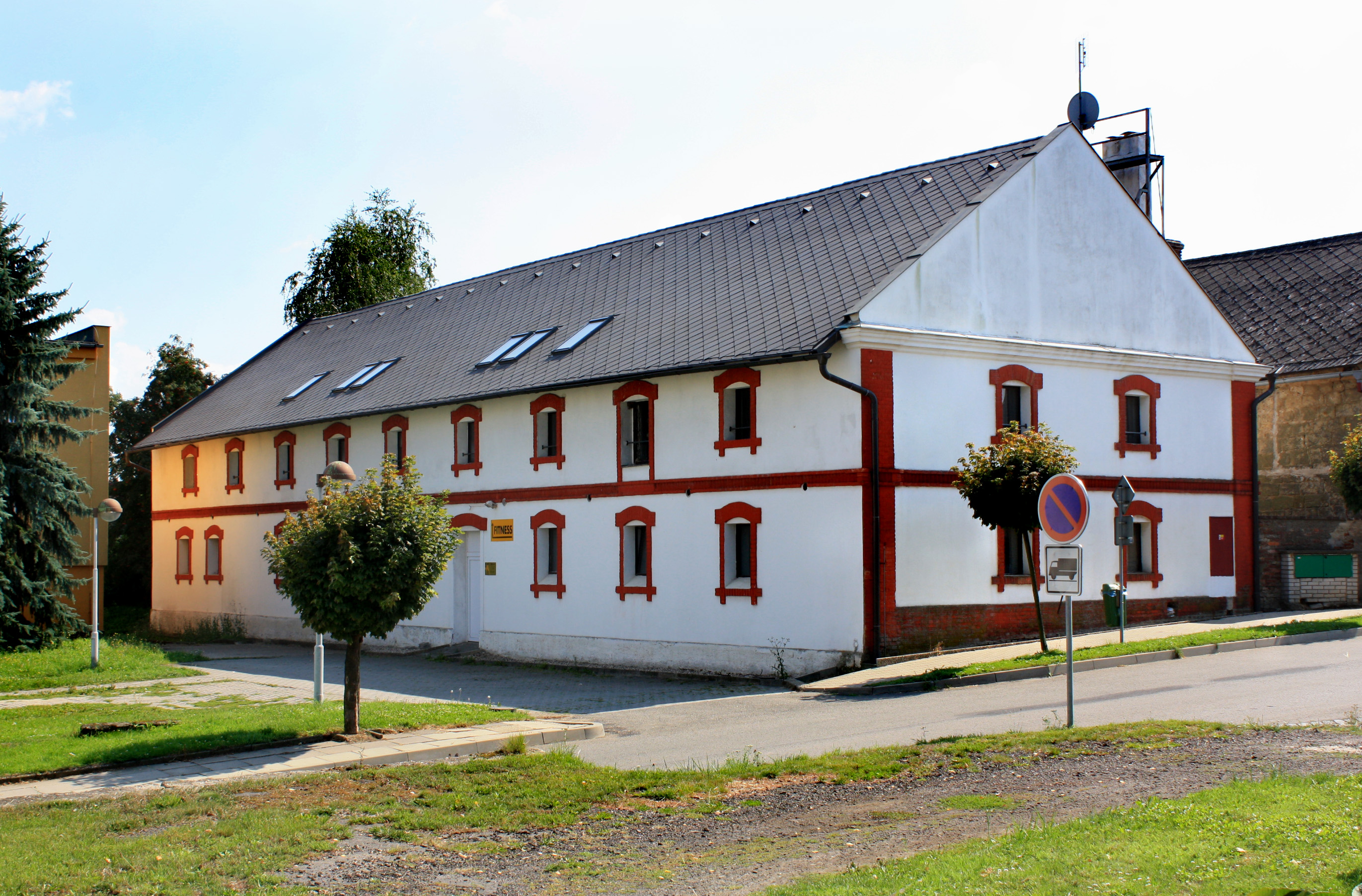 Old barn in Sovínky, Czech Republic